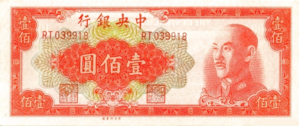 A banknote issued by the Central Bank of China while the Republic of China still administered the Chinese Mainland. This banknote is denominated in Chinese Gold Yuan which was introduced in a 1948 currency reform with an exchange course of 1 Gold Yuan = 3.000.000 Old Yuan.